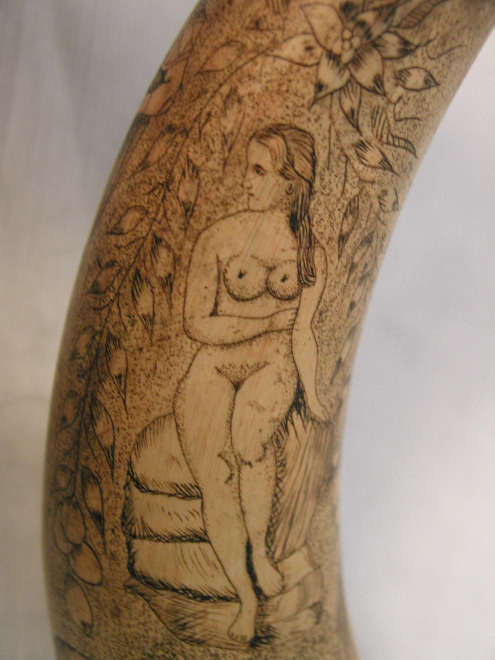 Scrimshaw powder horn bullock horn; convex wooden plug at base; metal powder measure fitting at other end; two metal suspension rings attached at side; decorated with figures - Roman soldier, female nude, peasant girl, mother and child, headstone